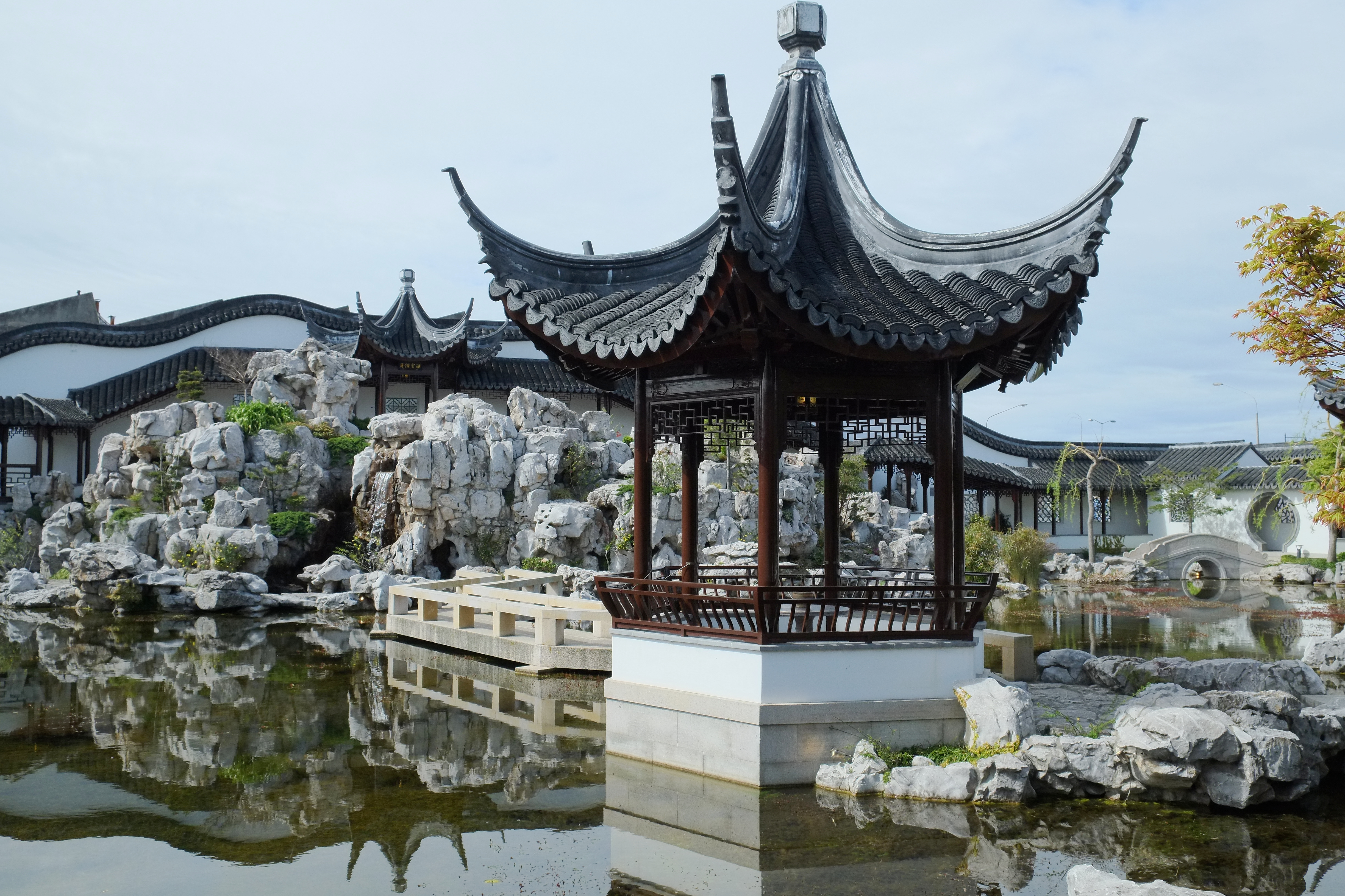 Heart of the Lake Pavilion and rock mountain in Dunedin Chinese Garden